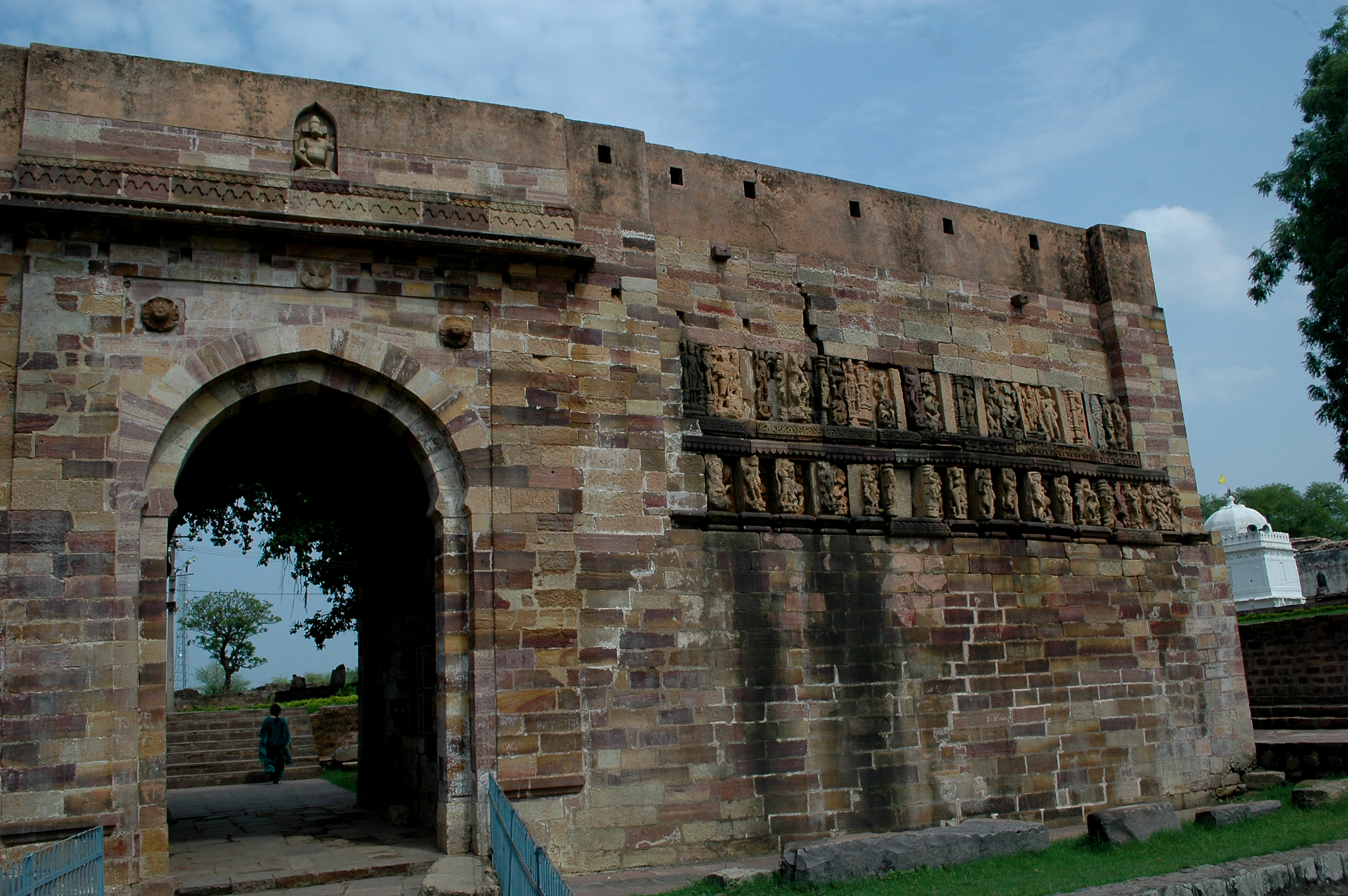 Whole site around Ratanpur /Ratanpur Fort